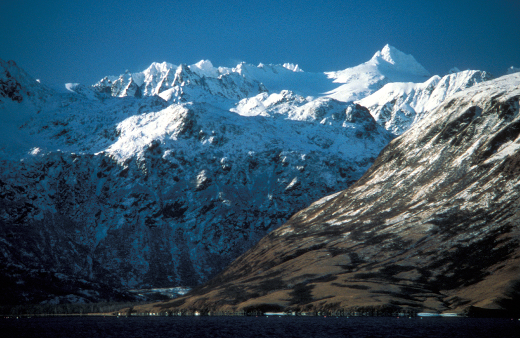 Three Saints Bay, Kodiak National Wildlife Refuge